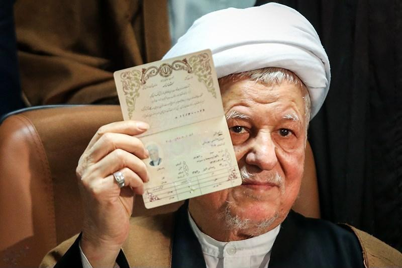 Iran's Ex-President Akbar Hashemi Rafsanjani Dies - TEHRAN (Tasnim) - Ex-Iranian president Akbar Hashemi Rafsanjani dies in hospital after suffering a heart attack.